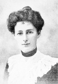 The Women's Peace Army was formed in Melbourne, Victoria, Australia on 8 July 1915 during a meeting of the Women’s Political Association presided by Vida GoldsteinZVida Goldstein, a noted suffragist and pacifist - date guessed at 1917